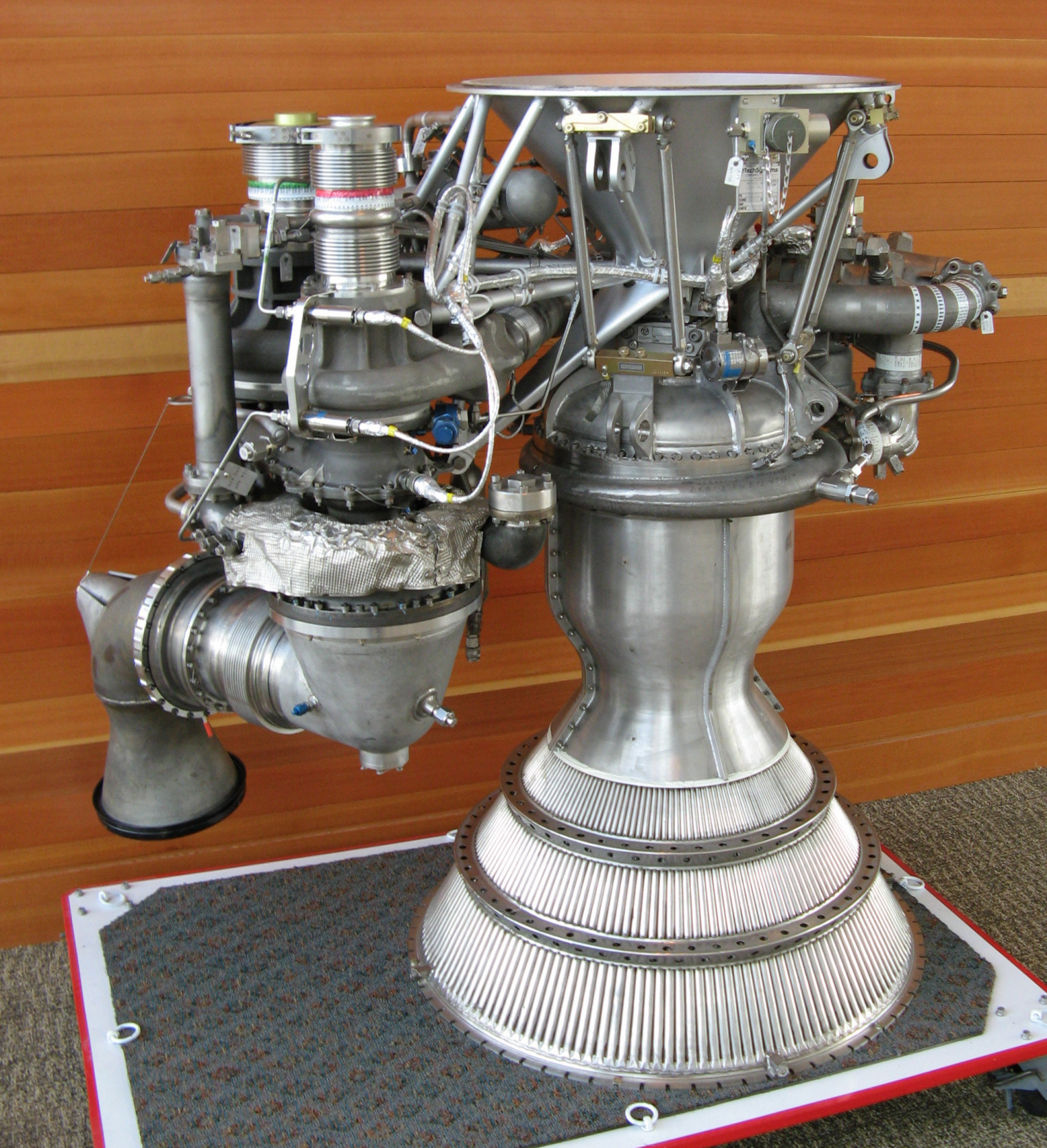 Aerojet LR91-7 engine.